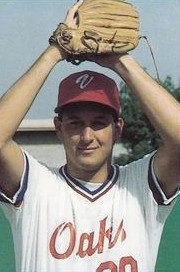 Professional baseball player Mark Guthrie